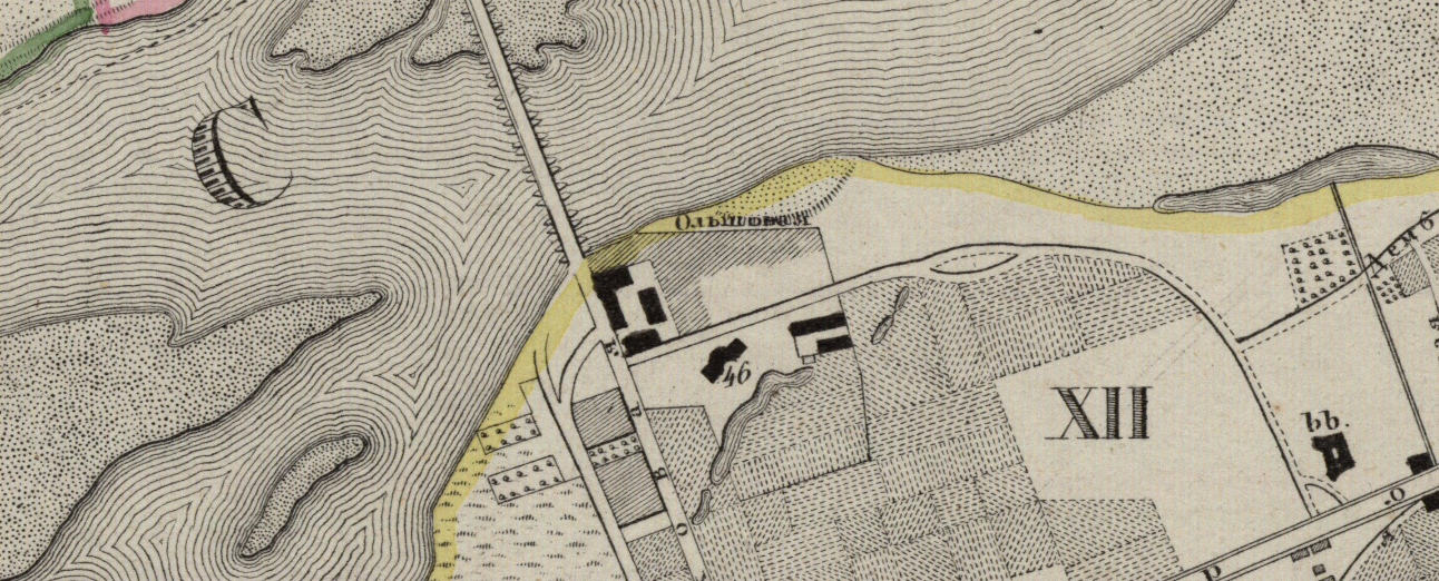 Olszowa Street on the plan of the town of Warsaw, 1850